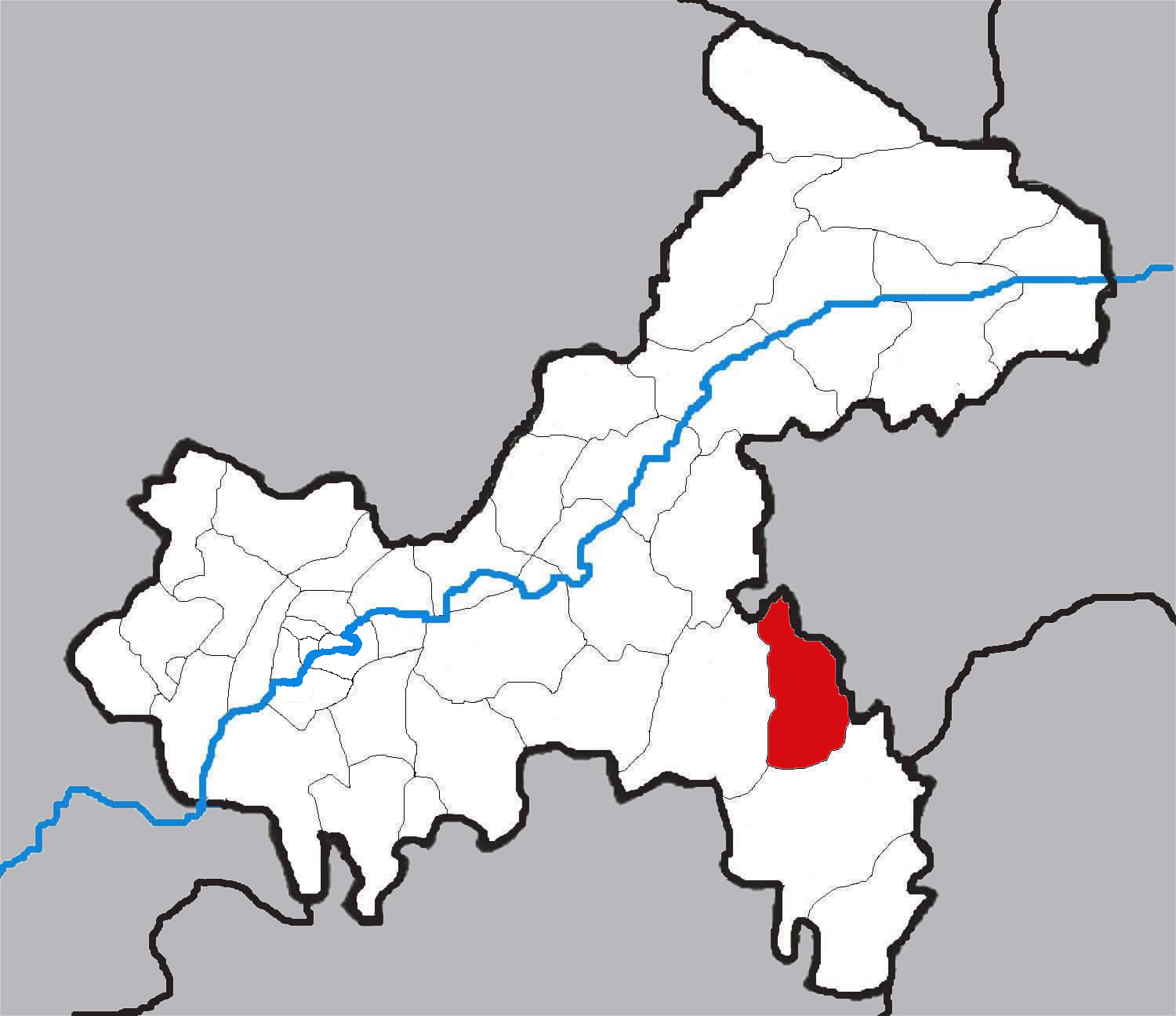 Administration maps of Chongqing, China